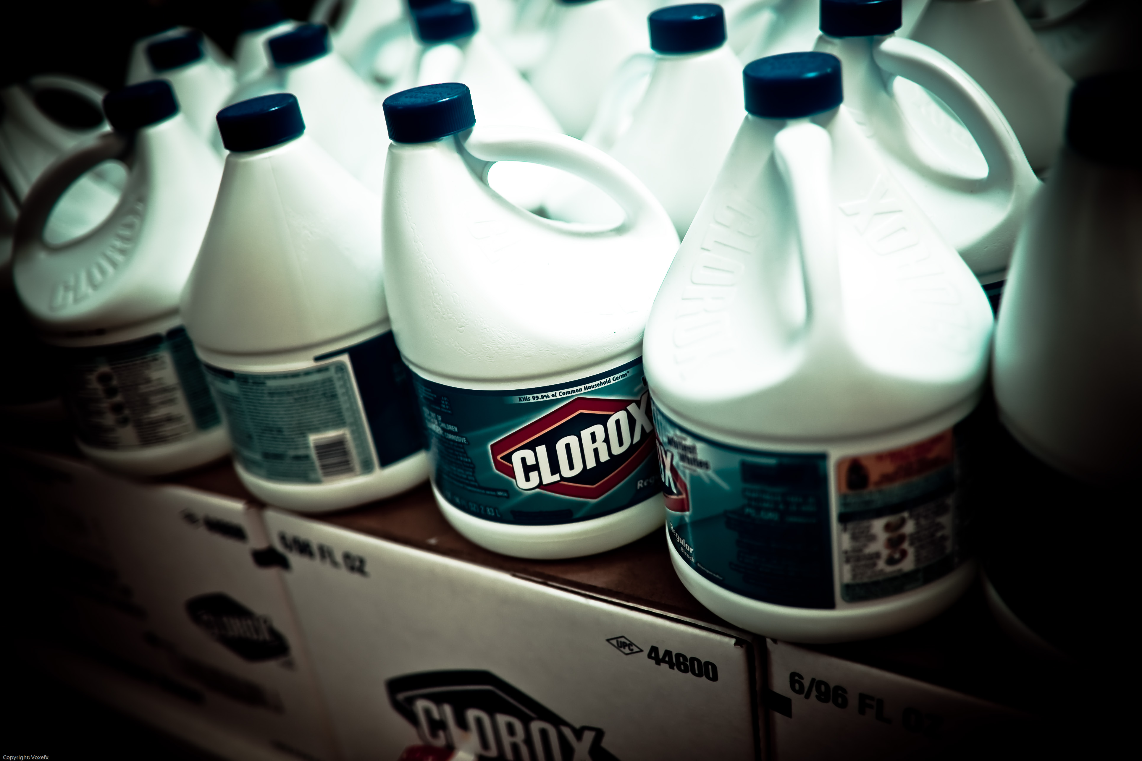 Photography/Travel Blog~Flickr~Twitter